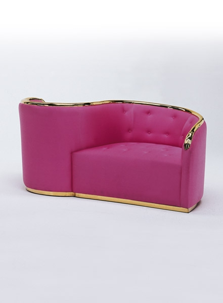 Sofa Gala by Dali